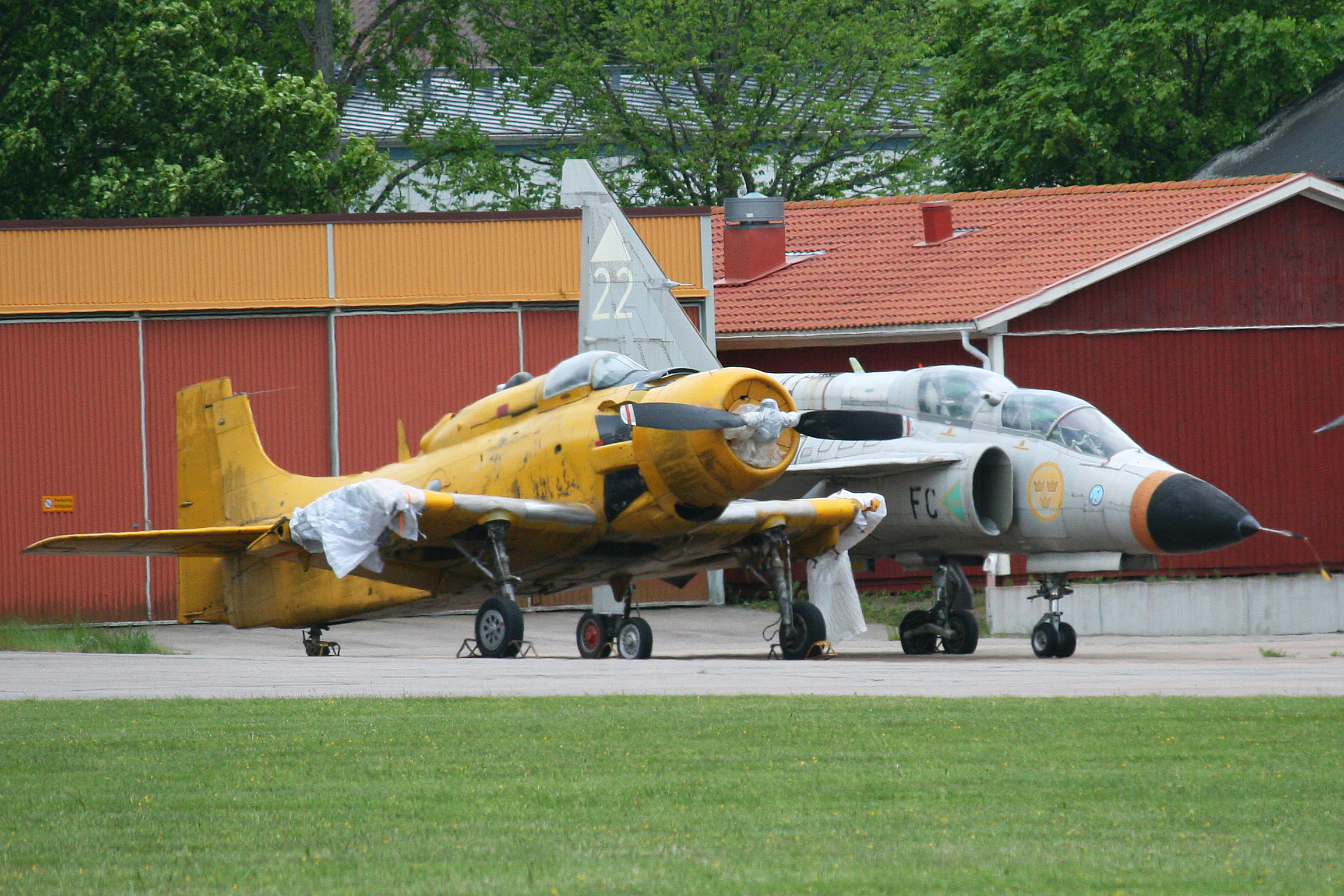 These two of the many aircraft are stored for the Flyvapenmuseum. The Skyraider was originally '127945' with the US Navy and then became 'WT947' with the Royal Navy. It is msn 7960. The Viggen is the prototype Sk37 two seater '37800' and wears 'FC' marks. 2012 Malmen Airshow, Sweden. 03-06-2012